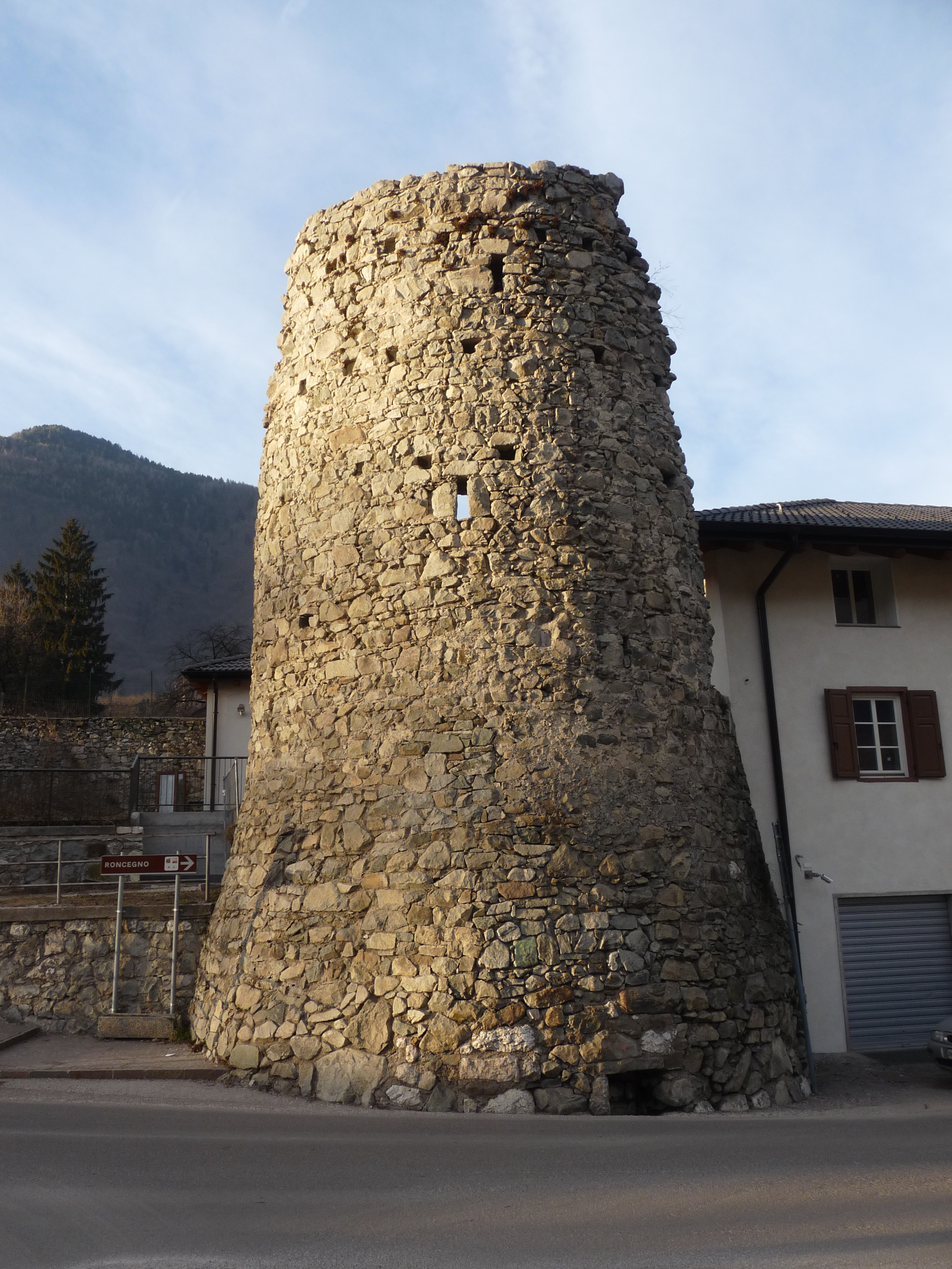 Roncegno Terme (Italy): view of the so-called Tor Tonda in the village of Marter.